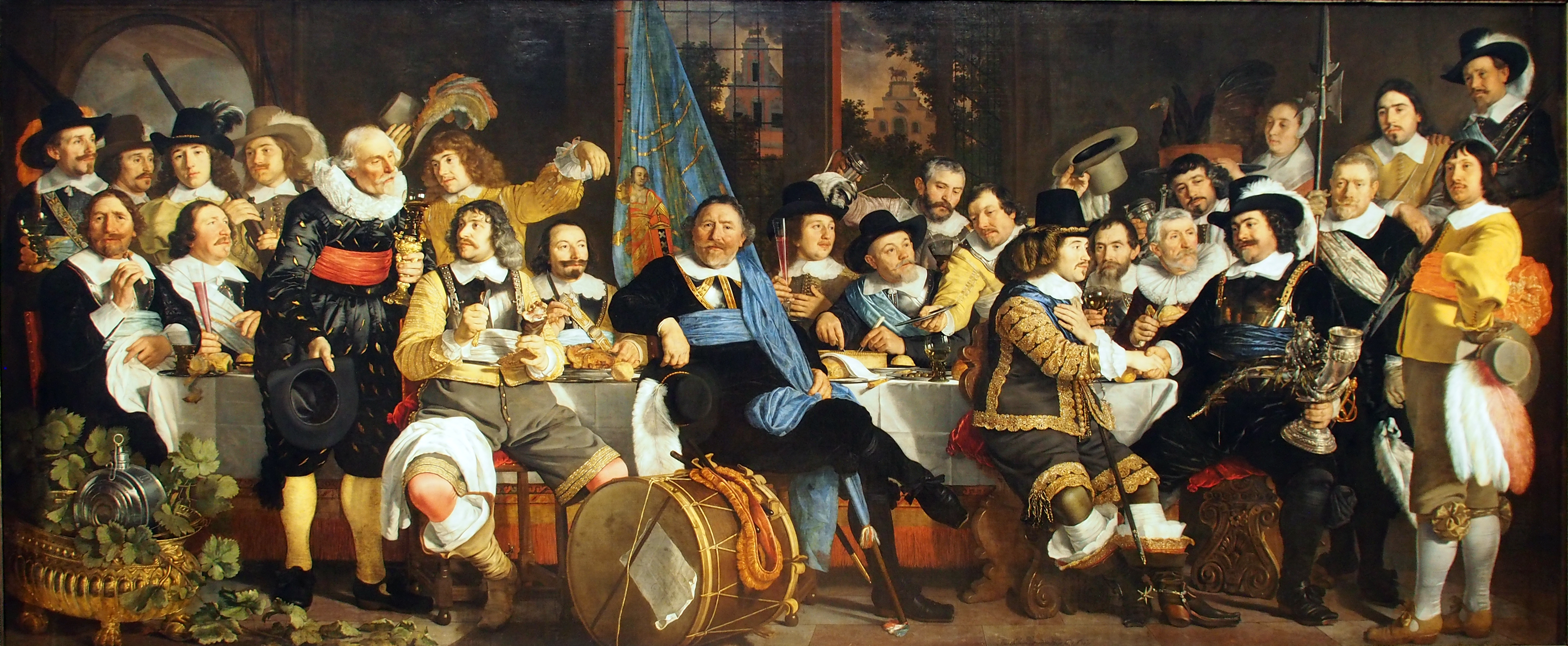 Banquet at the Crossbowmens's Guild in Celebration of the Treaty of Münster